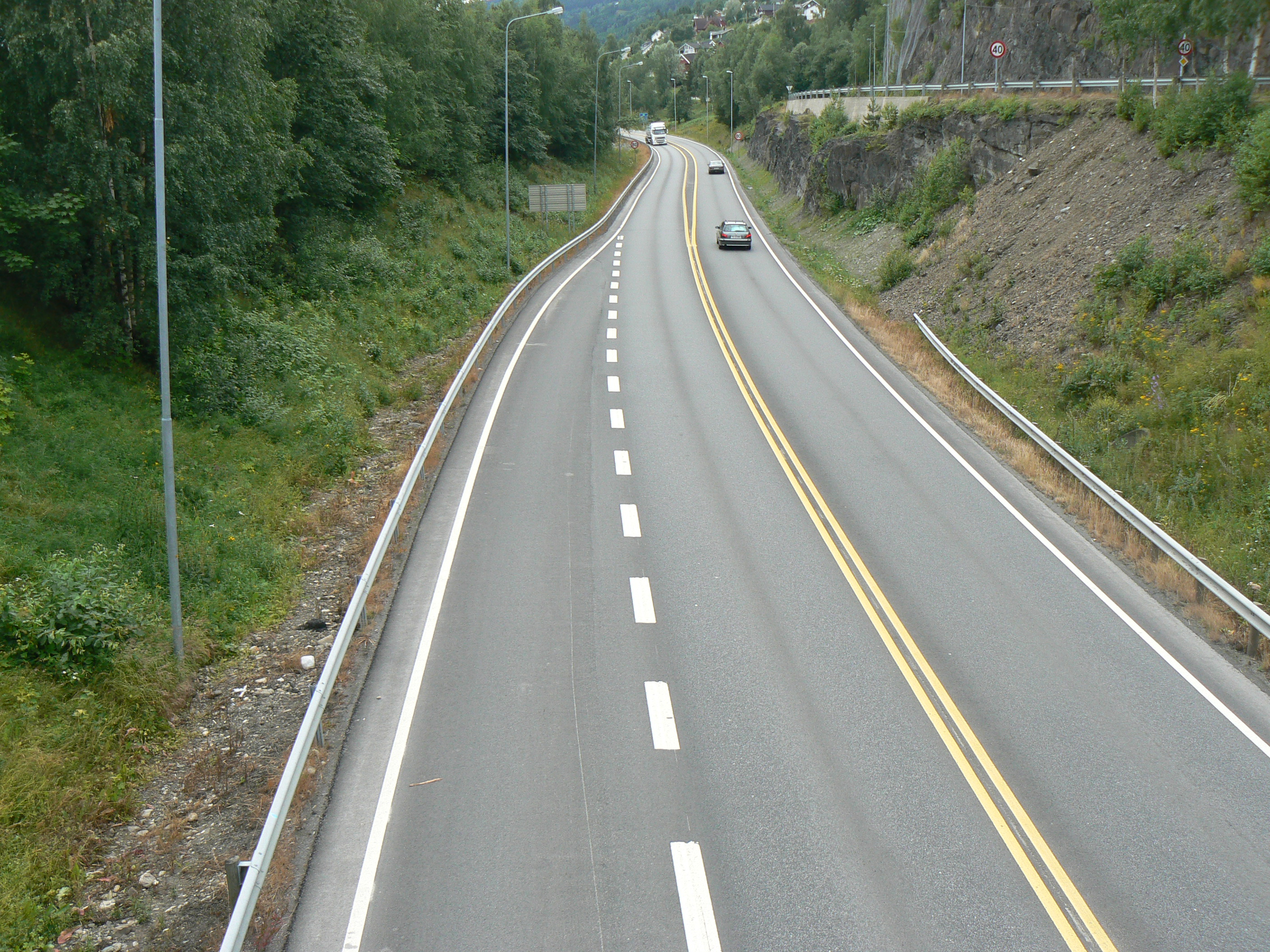 The E6 highway at Lillehammer, Norway